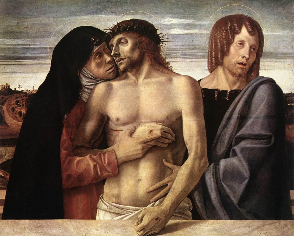 Dead Christ Supported by the Madonna and St John